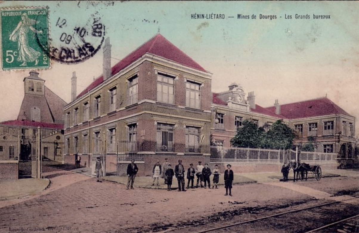 Compagnie des mines de Dourges, Pas-de-Calais, France.